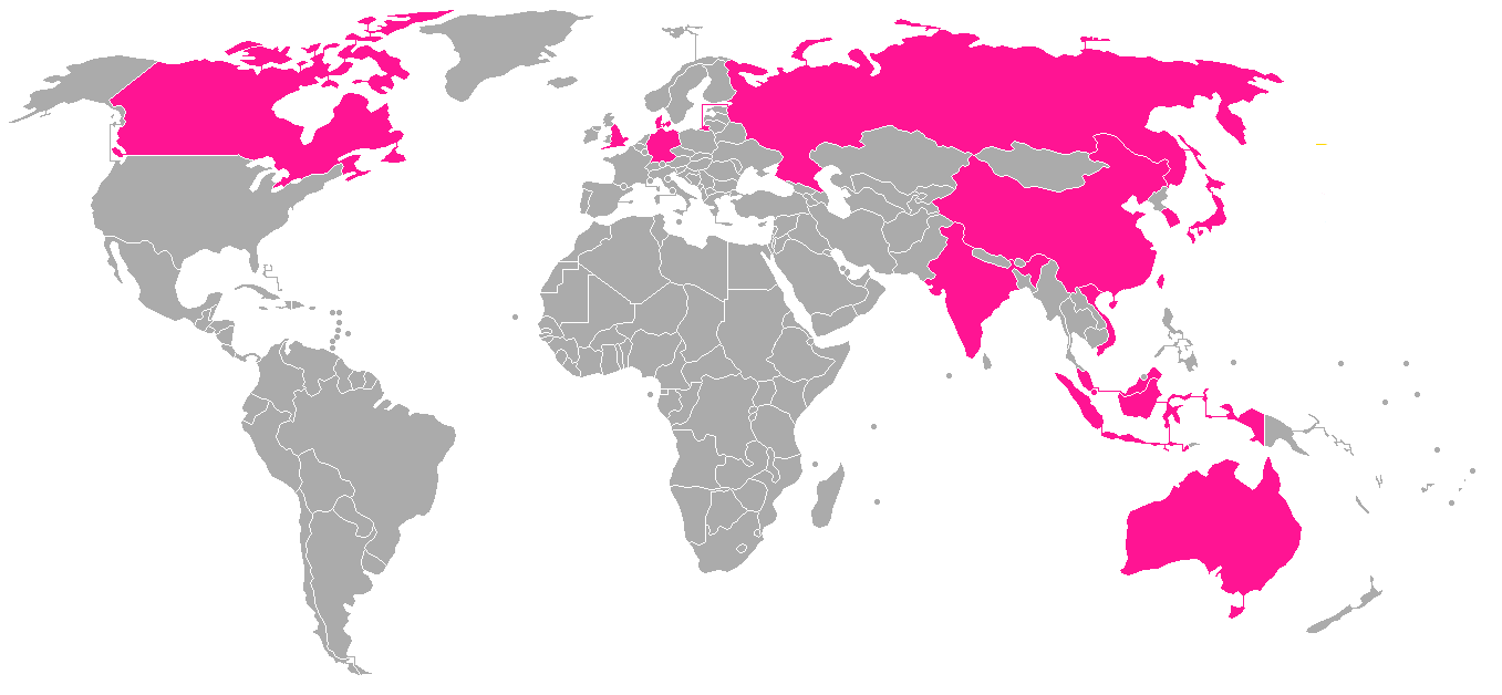 Nations participating in the Uber Cup in 2014.